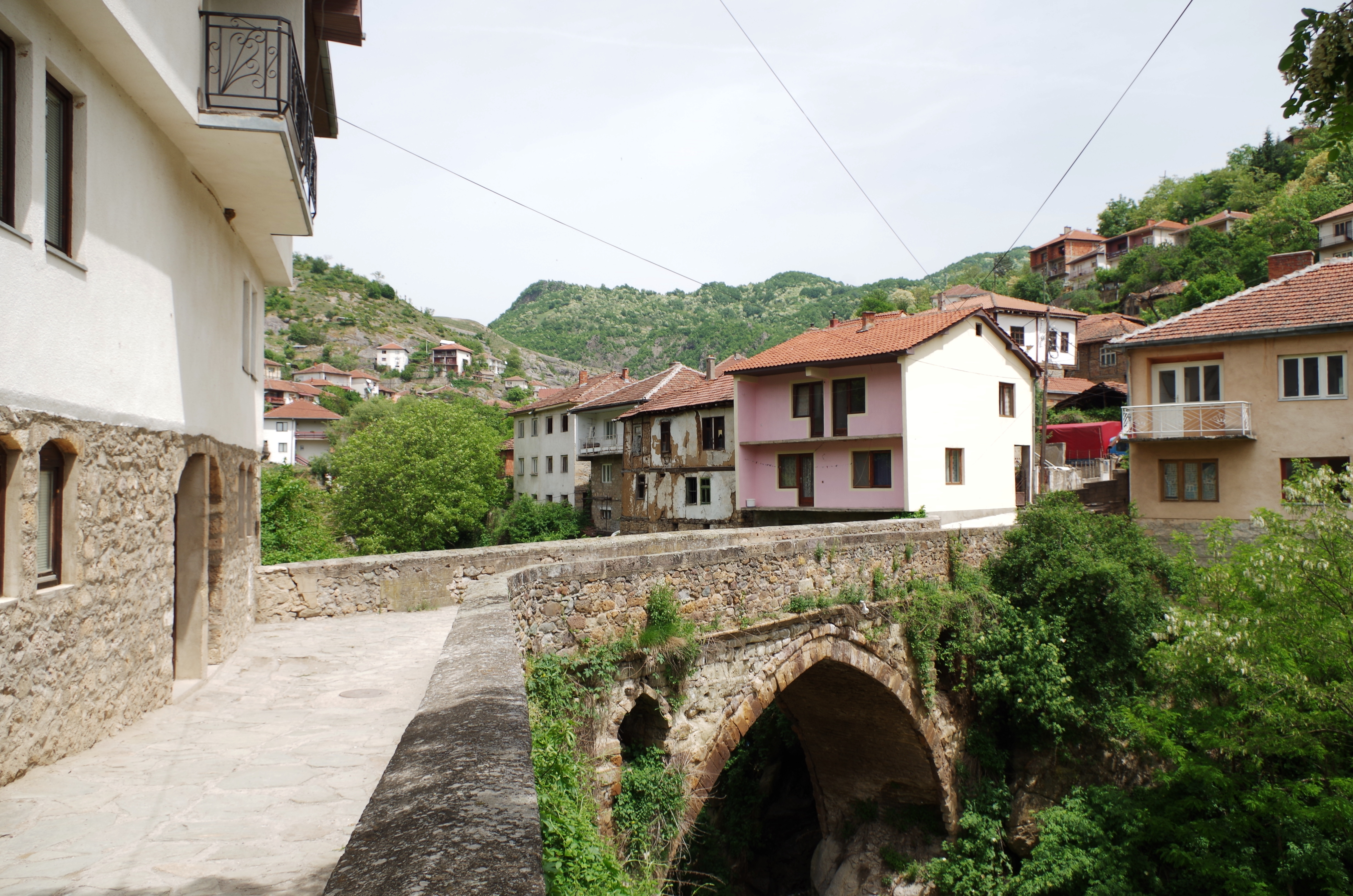 View of Jokshirski Bridge in Kratovo